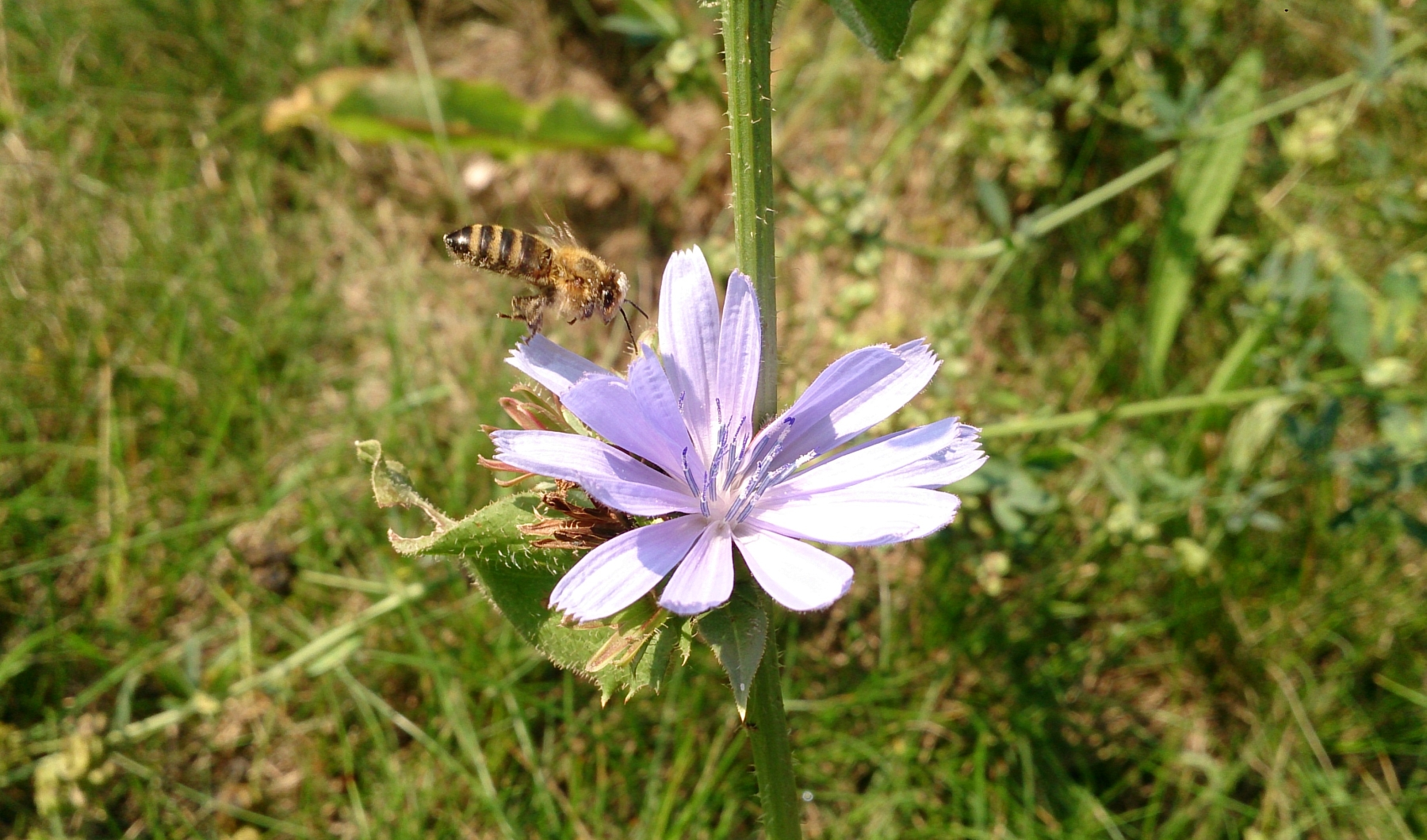 Cichorium intybus with a honey bee collecting pollen